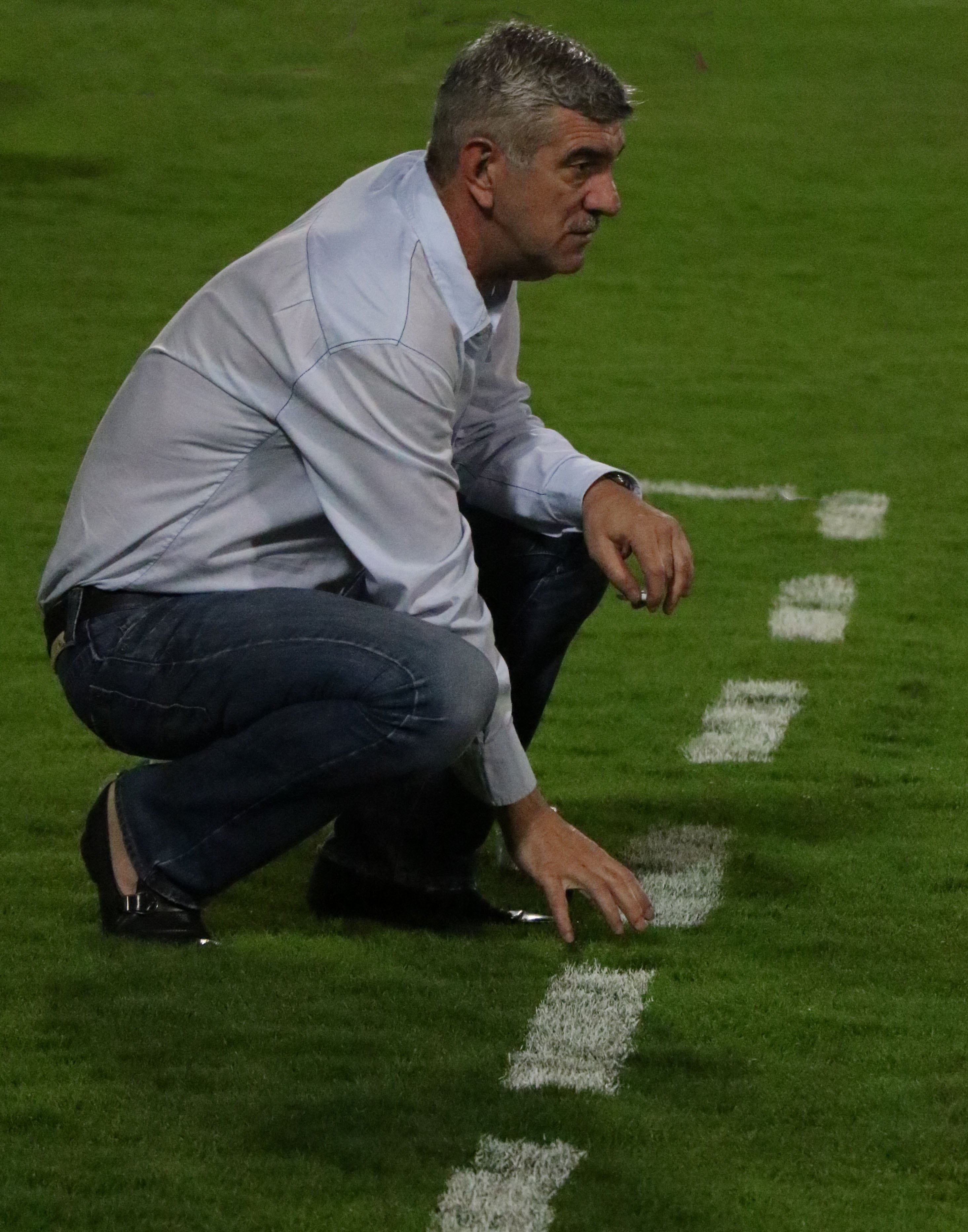 Branko Smiljanić in a match against Al Nasr of Salalah 21 March 2015 Al Saada Stadium, Salalah Photographer email id